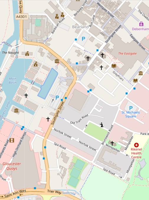 Southgate Street, Gloucester map